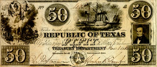 The front of a 50 dollar "redback" note of the Republic of Texas. The inscription reads: Twelve months after date THE REPUBLIC OF TEXAS Promises to pay FIFTY Dollars to the bearer TREASURY DEPARTMENT Jan. 1 1840 Receivable for all government dues. (signed) J. H. Starr, Secy. Treasy. Mirabeau B. Lamar, Pres.